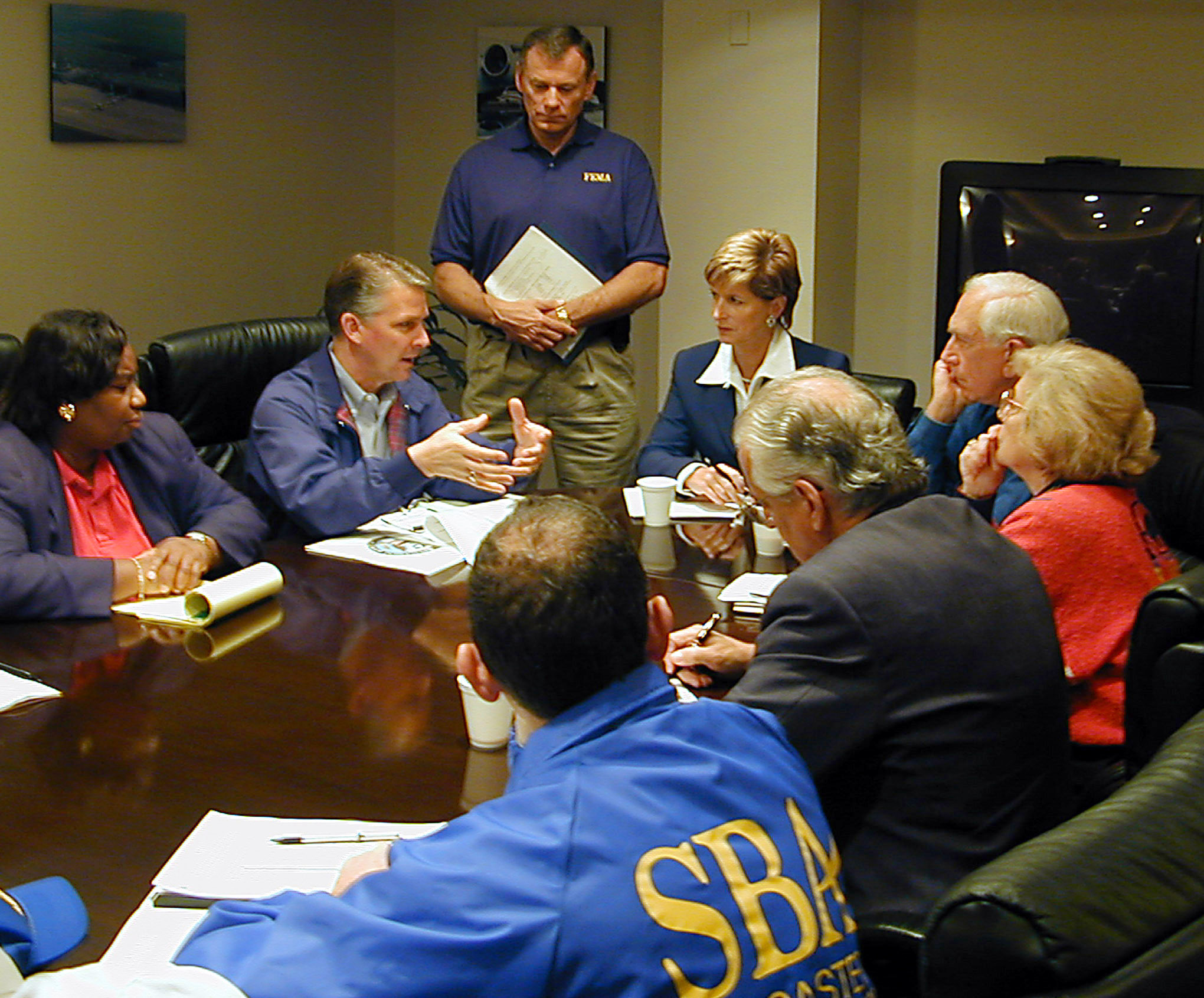 Lodi, NJ, 9/21/1999 -- Federal Emergency Management Agency Director James Lee Witt meets with NJ Governor, Christie Todd Whitman with Senator Frank Lautenburg and Representative Marge Roukema, and Gloria Jeff, Deputy Administrator of the Federal Highway Administration, discussing what disaster recovery aid is available to the State of New Jersey following Hurricane Floyd. Photo by Andrea Booher/FEMA News Photo